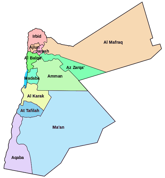 Based upon the File:Jordan governorates named.svg file